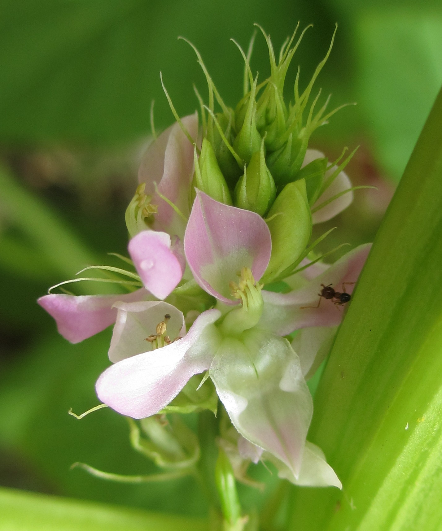 Inflorescence of guar (Cyamopsis tetragonoloba)